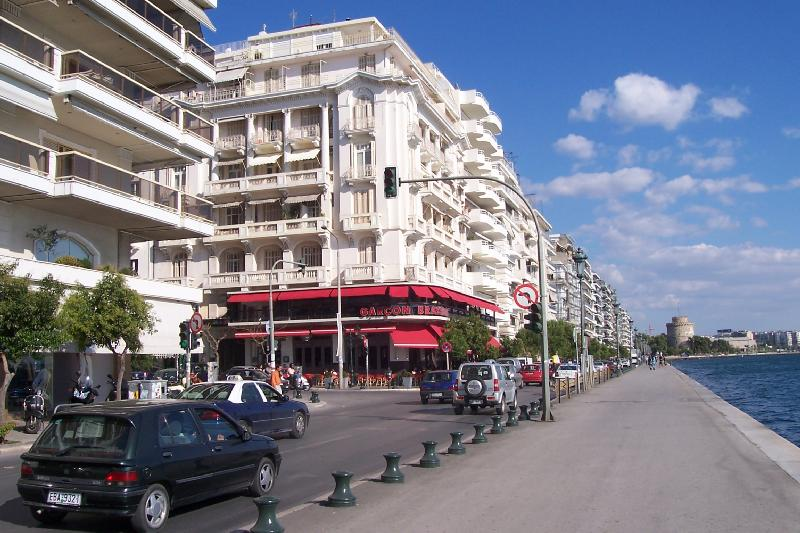 The seafront Nikis Avenue, in Thessaloniki, Greece 2006.